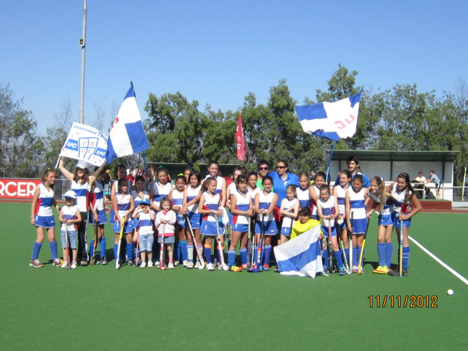 Bicampeonas Torneo Nacional (2011- 2012) Sub 12 2012